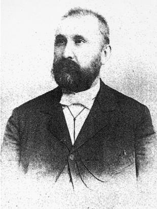 A picture of Tomislav Maretić